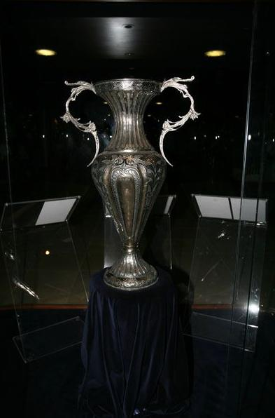 General Harington Cup, 29 June 1923. (Special cup)